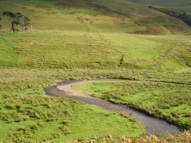 Widening meander. Kingledoors burn. Water flowing on the outside of the bend, flows faster and cuts harder. Meanwhile on the inside, stones are deposited forming a large well drained area.